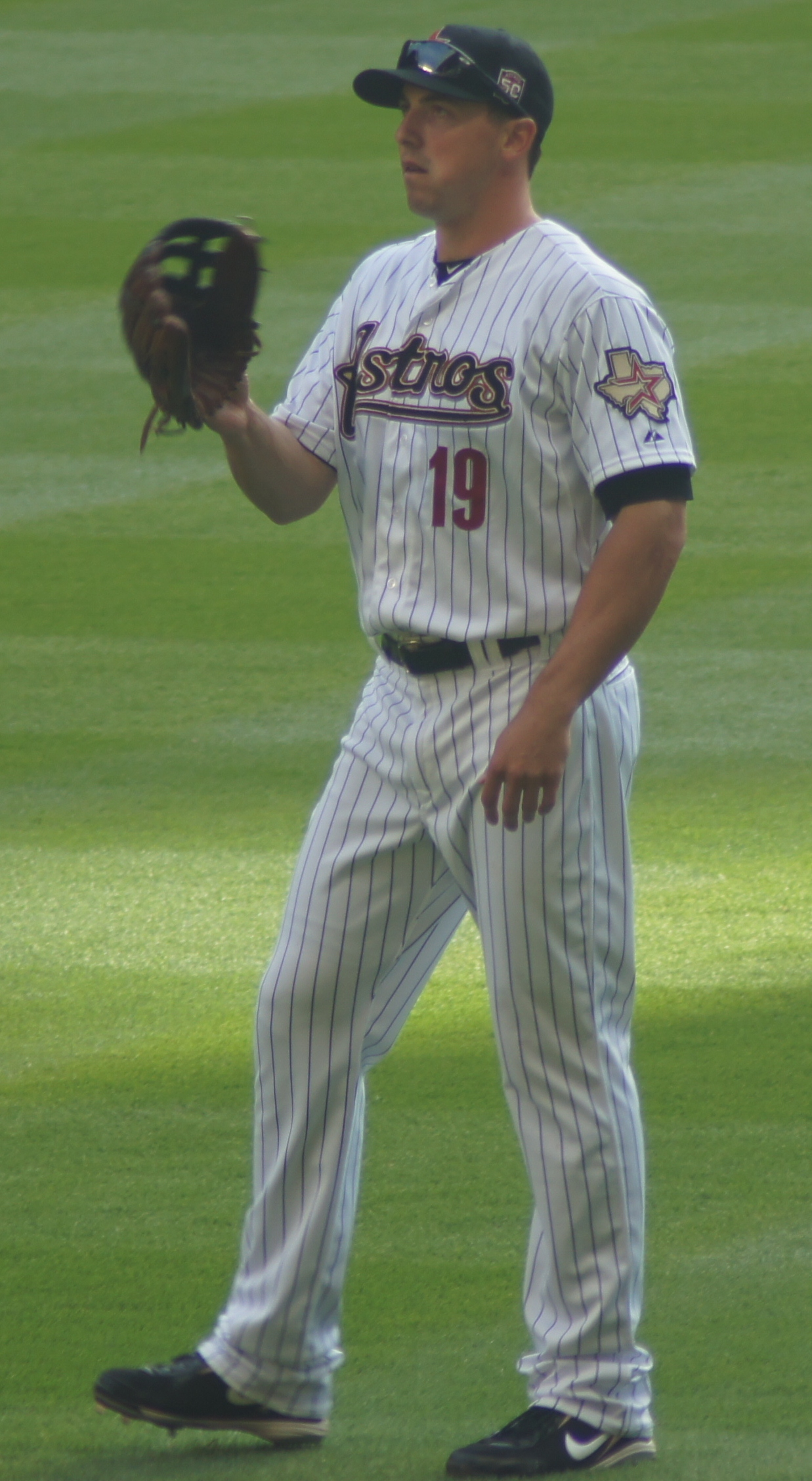 Brian Bogusevic as a member of the Houston Astros